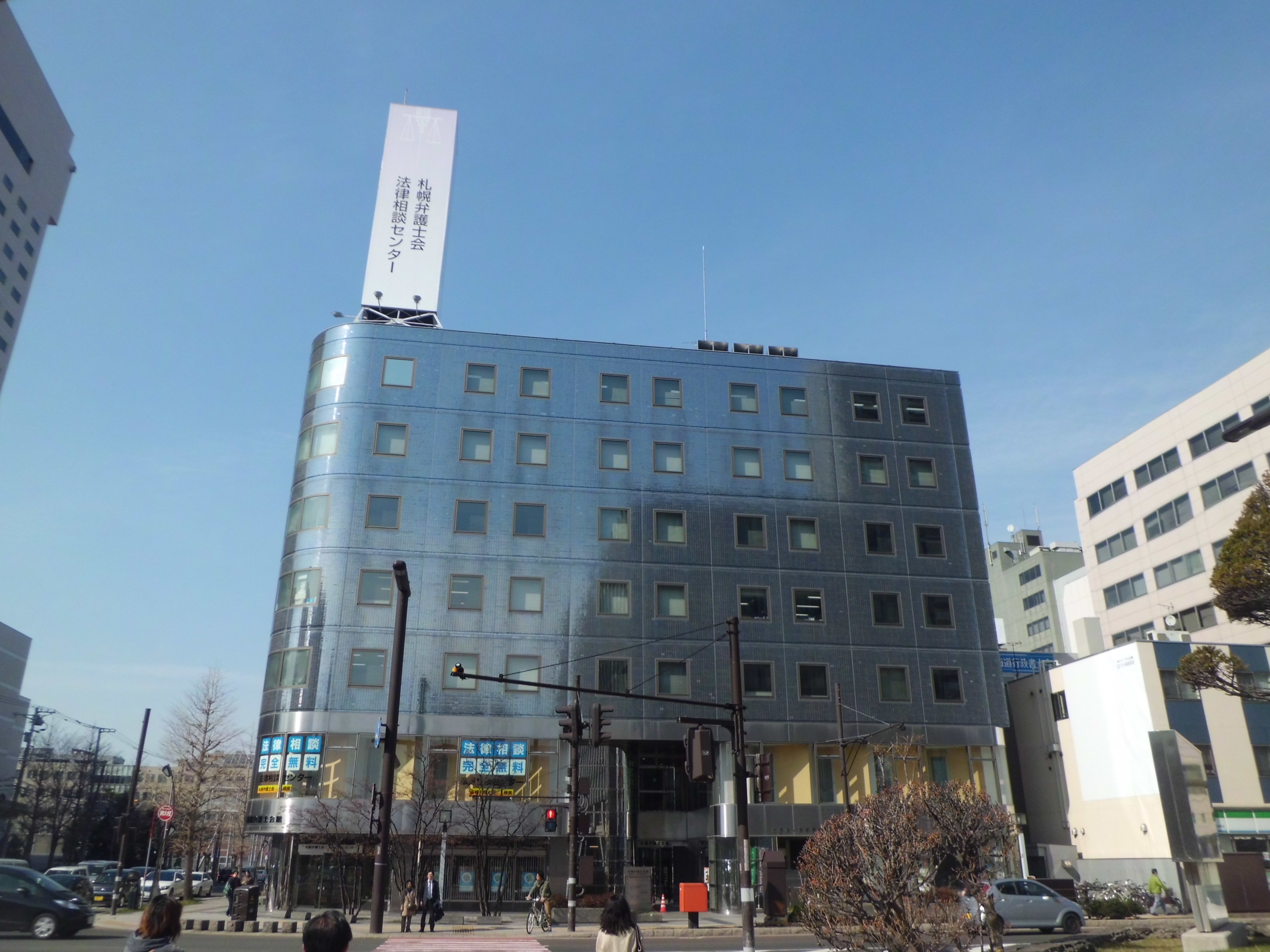 Sapporo Bar Association Hall